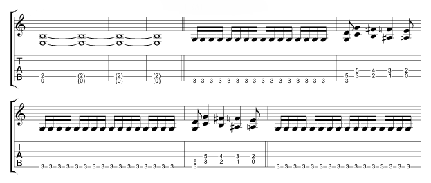 First solo form Vader song "Choices" by Maurycy Stefanowicz